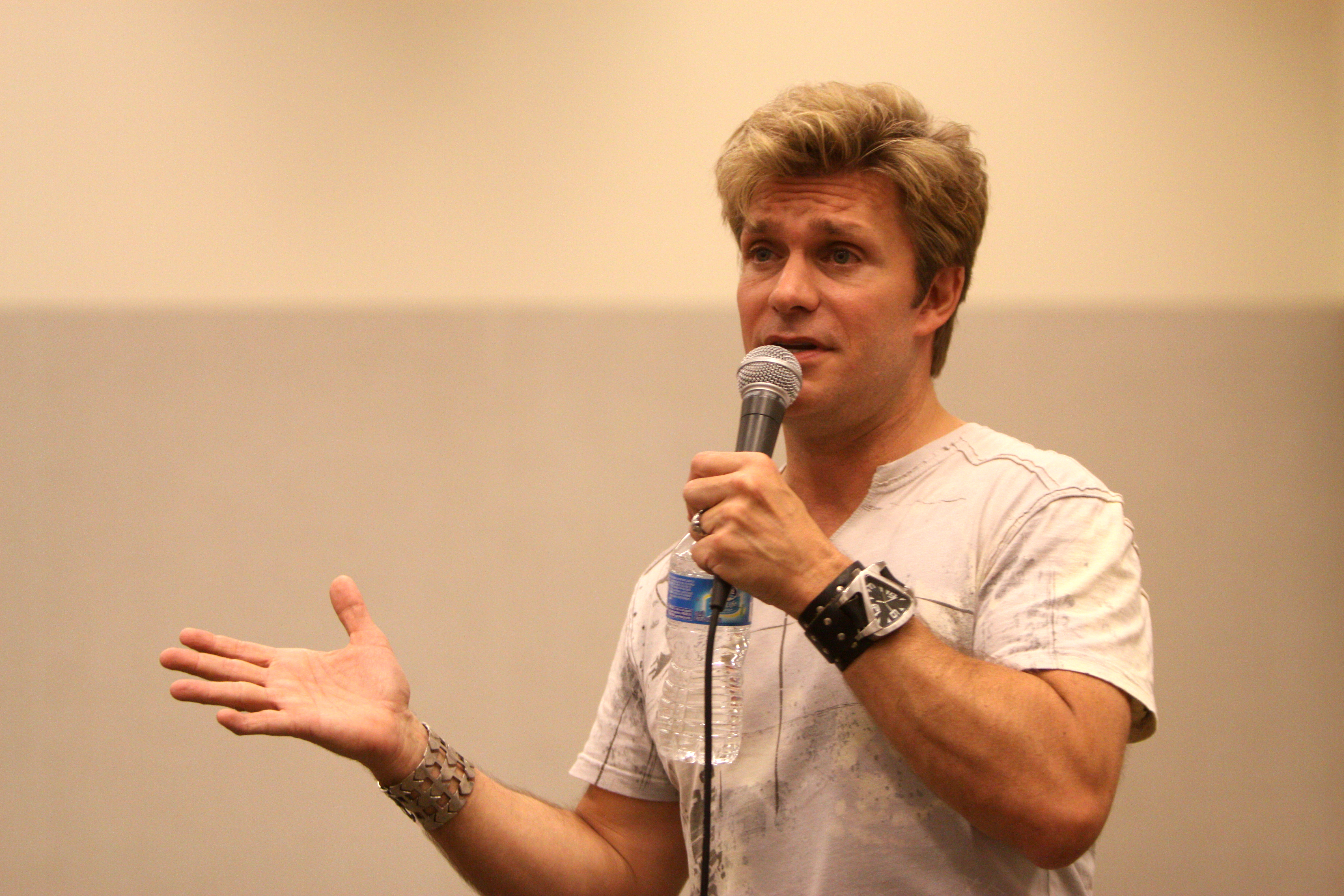 Voice actor Vic Mignogna of Full Metal Alchemist at the Phoenix Comicon in Phoenix, Arizona.